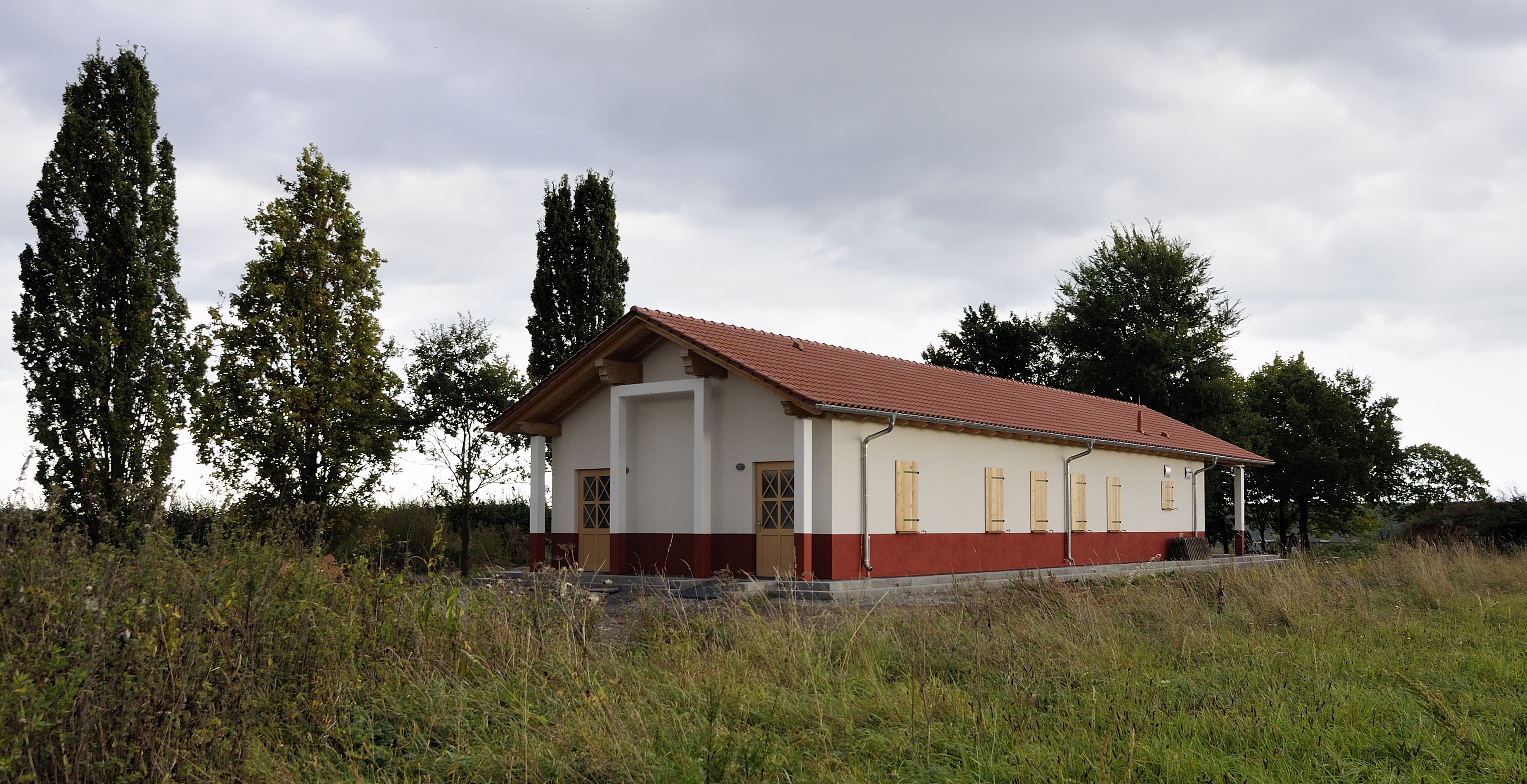 Roman villa rustica Haselburg.